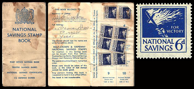 Savings booklet and 6d stamp of United Kingdom, 1941-1944. The governmental National Savings Stamp scheme to encourage individuals to save, as well as to raise funds for the Treasury. Deposits could be made by buying savings stamps in sixpence or half-crown values.